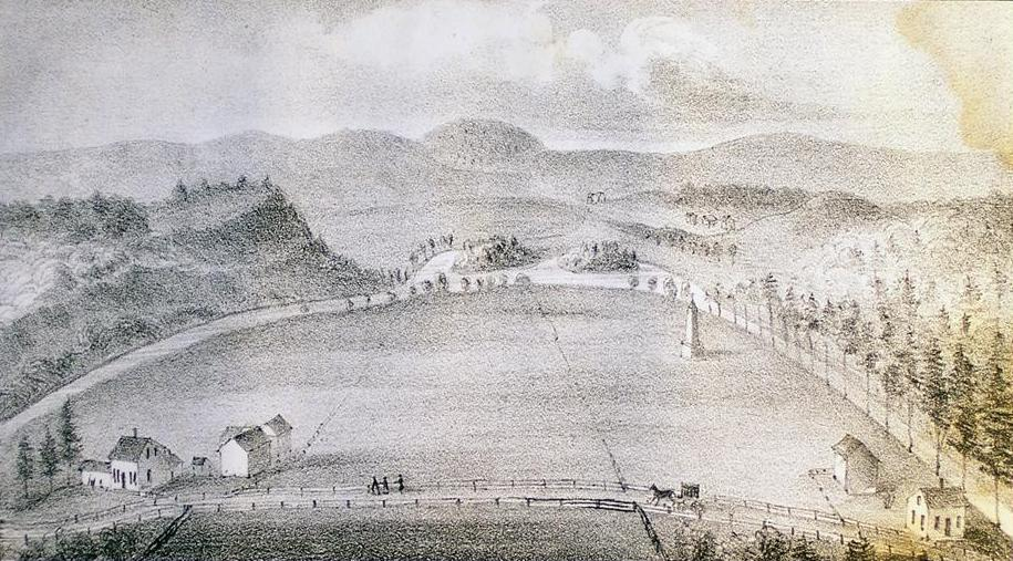 "View of Old Point from the Hill," from The History of Norridgewock by William Allen, published in 1849 by Edward J. Peet of Norridgewock, Maine. Old Point is the site of Norridgewock Indian Village, now part of Madison, Maine, and shows the obelisk grave marker of Father Sebastien Rale (or Rasle). The Kennebec River bends around the intervale, its confluence with the Sandy River at center.